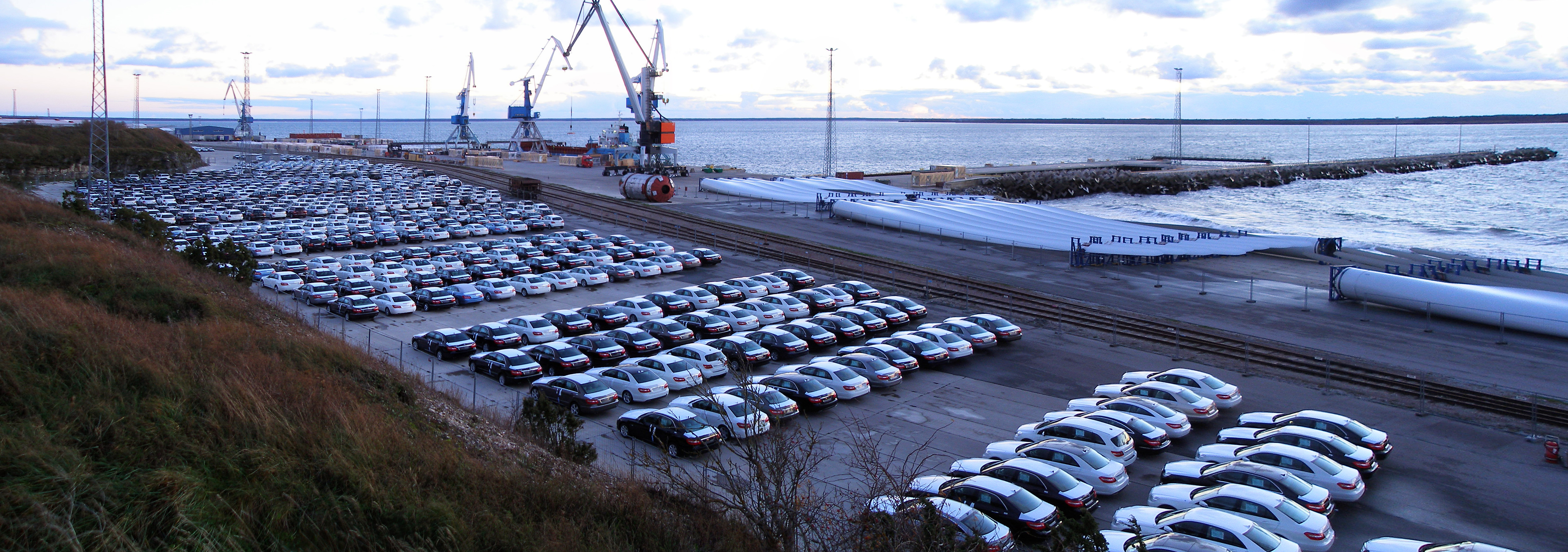 Paldiski Northern Port, Estonia